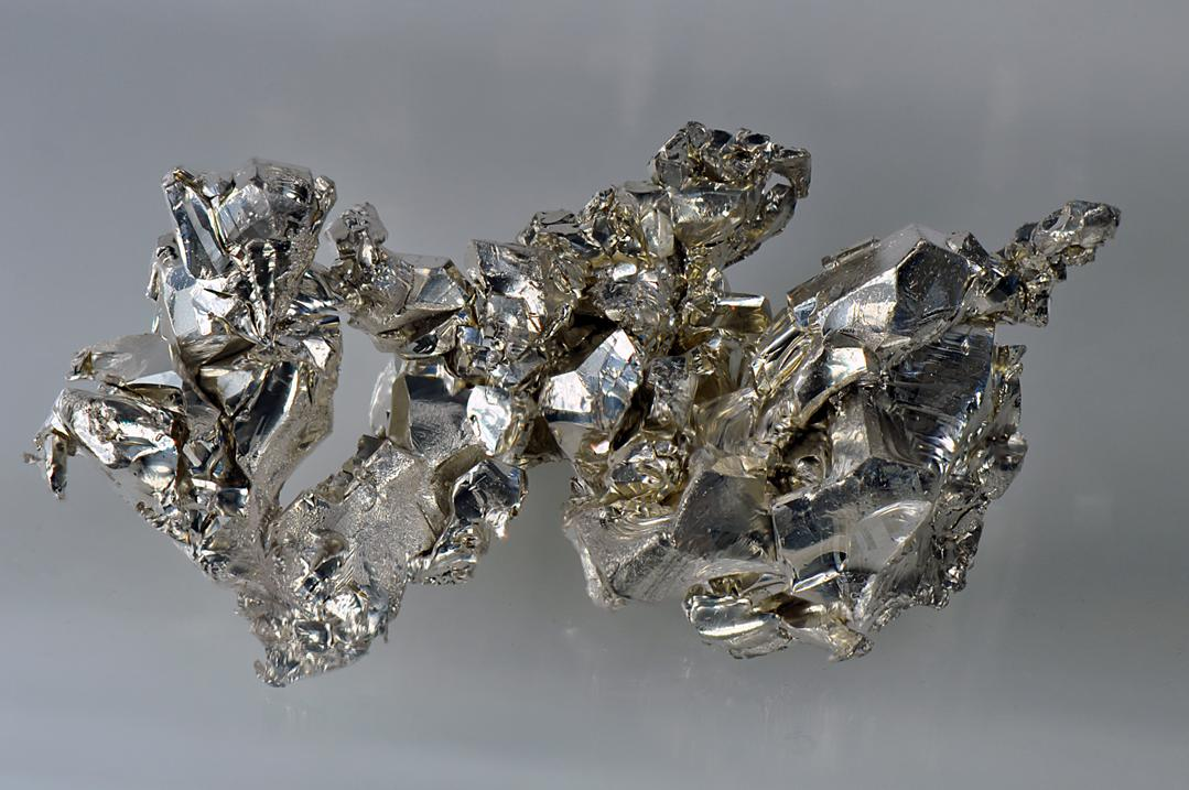 Crystals of pure 99,99% Calcium